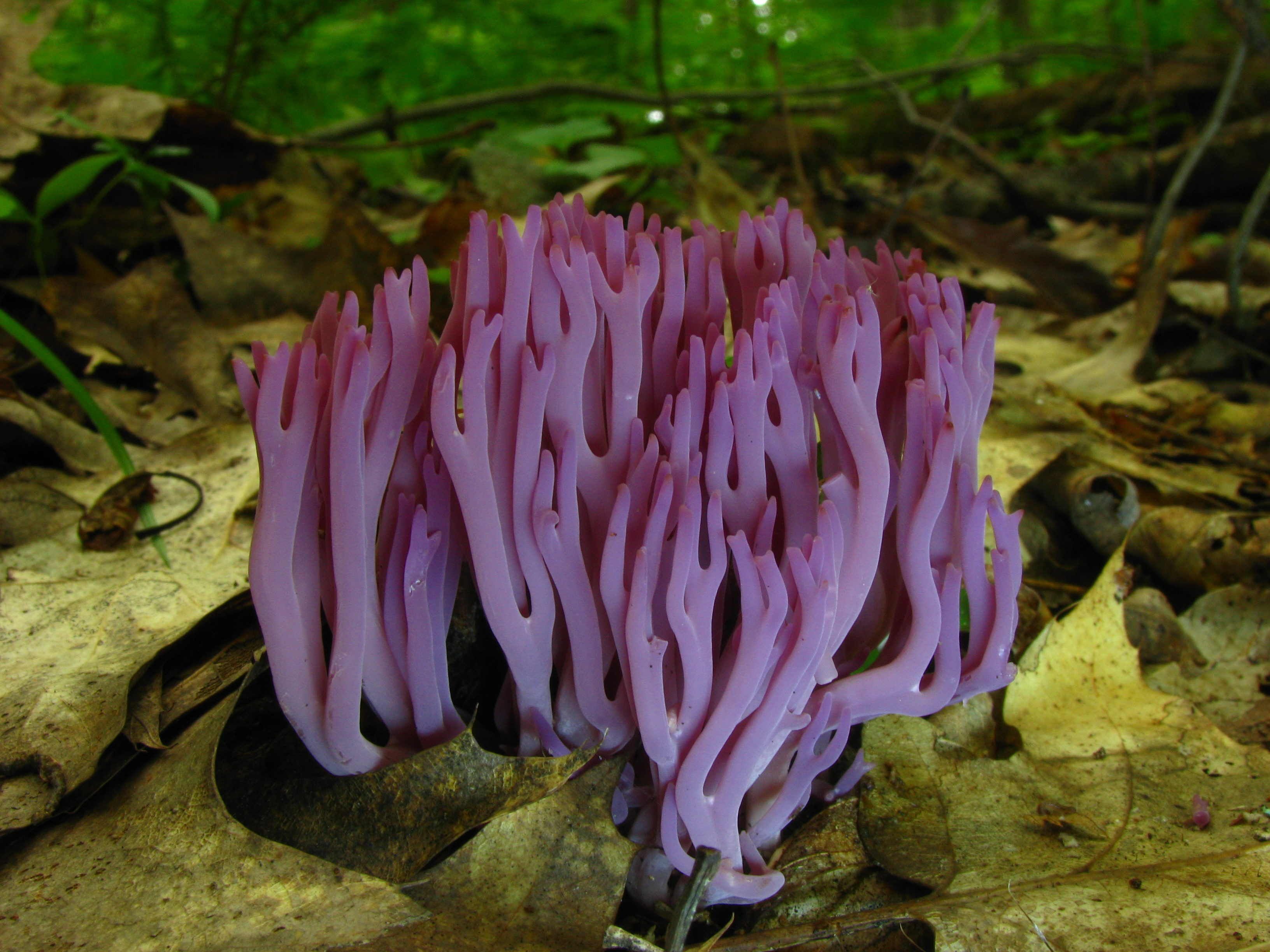 Clavaria zollingeri Lév. Location: Babcock State Park, Fayette Co., West Virginia, USA Image Notes: Here’s an unedited image for the folks at Wikipedia to play with. For more information about this, see the observation page at Mushroom Observer.